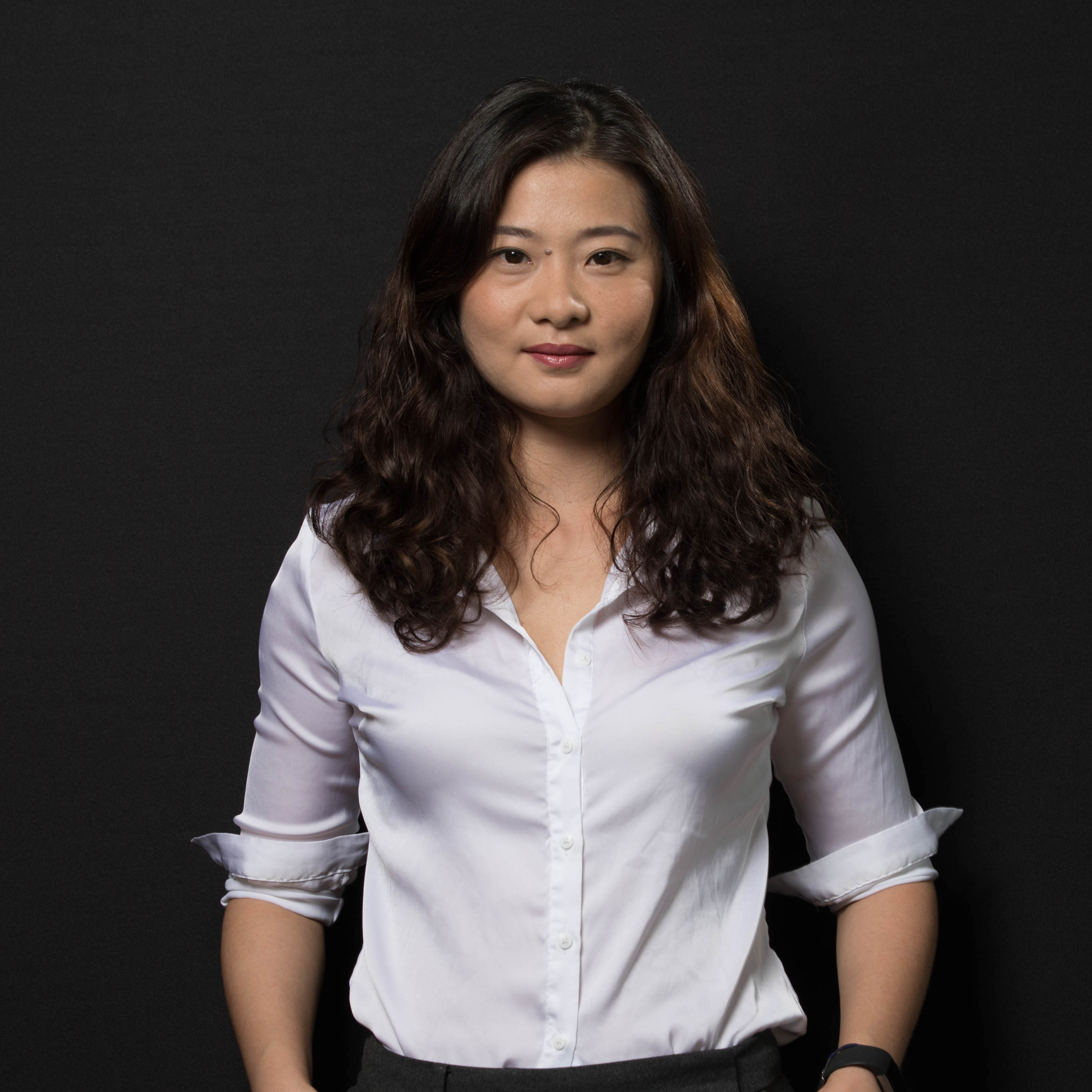 Grace Gao is the daughter of Gao Zhisheng, a dissident Chinese human rights lawyer who has lived under house arrest since 2014. She has spoken around the world to advocate for his release and to promote her father’s memoir, “A China More Just.”